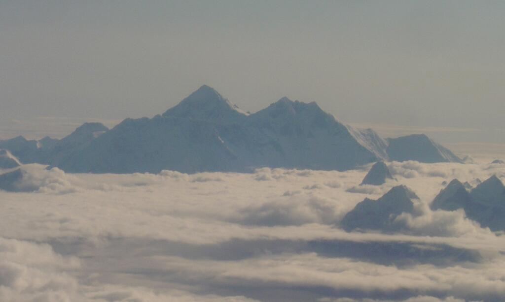 Mt Everest